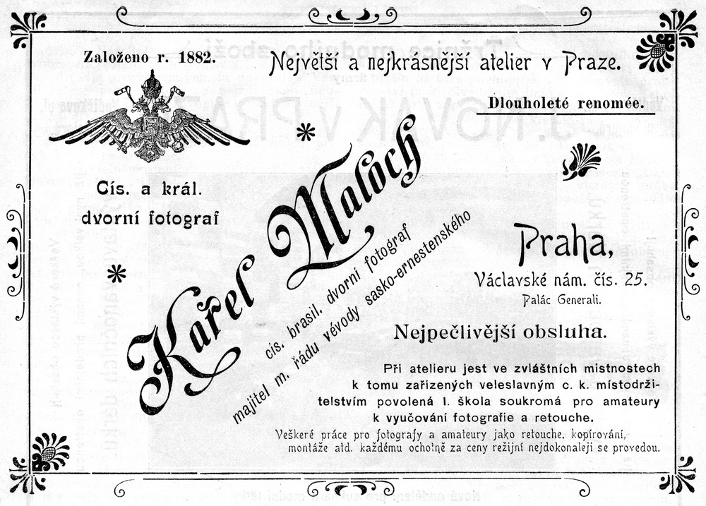 Advertisement of Karel Maloch photographic studio, 1900